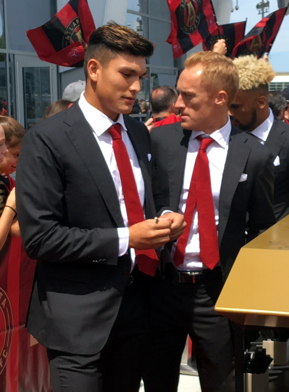 2017-09-10 - Brandon Vázquez signing the Golden Spike for Atlanta United